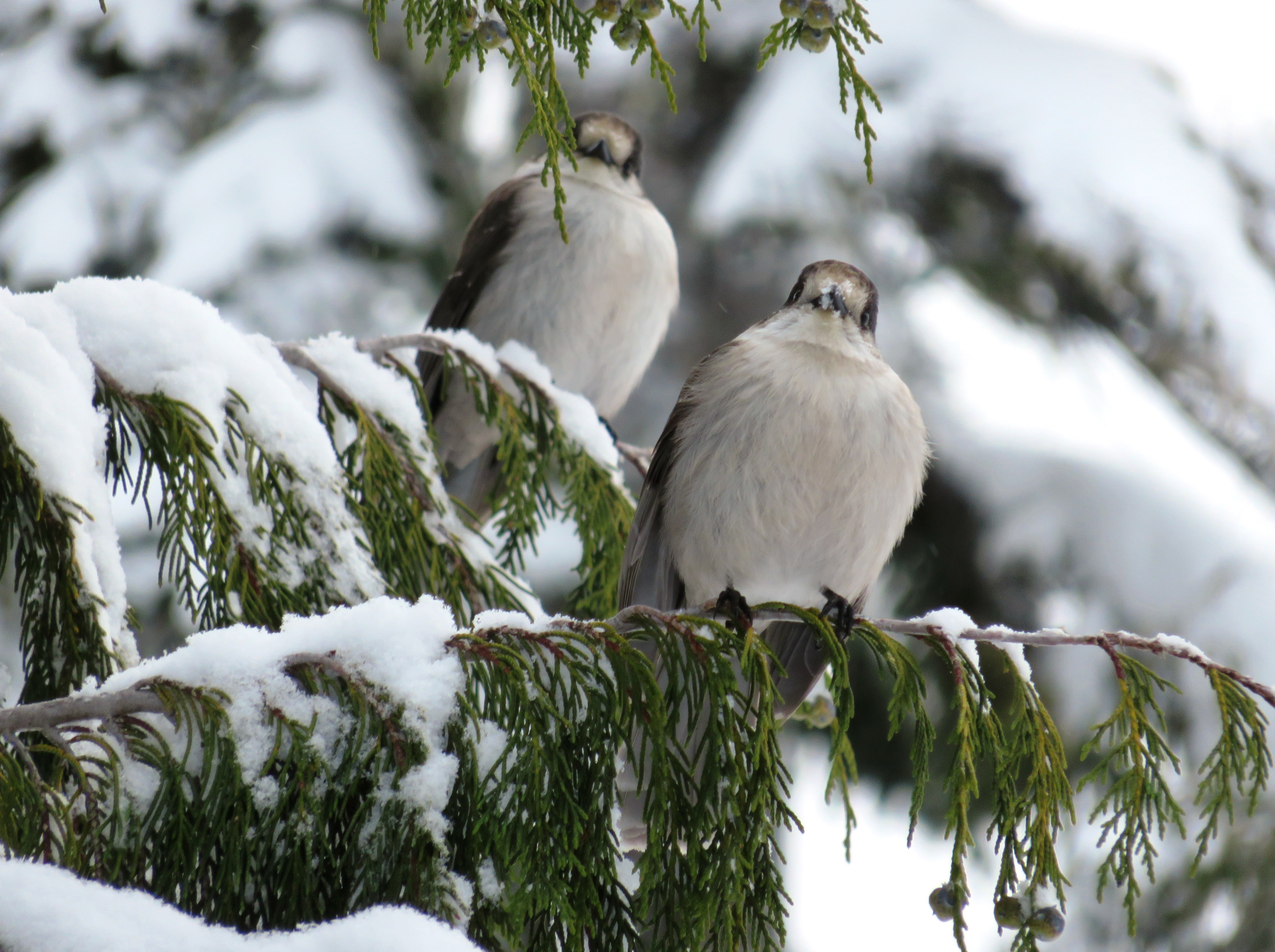 Two Gray Jays Perisoreus canadensis perched on a Nootka Cypress Cupressus nootkatensis, Red Heather, Squamish, British Columbia.